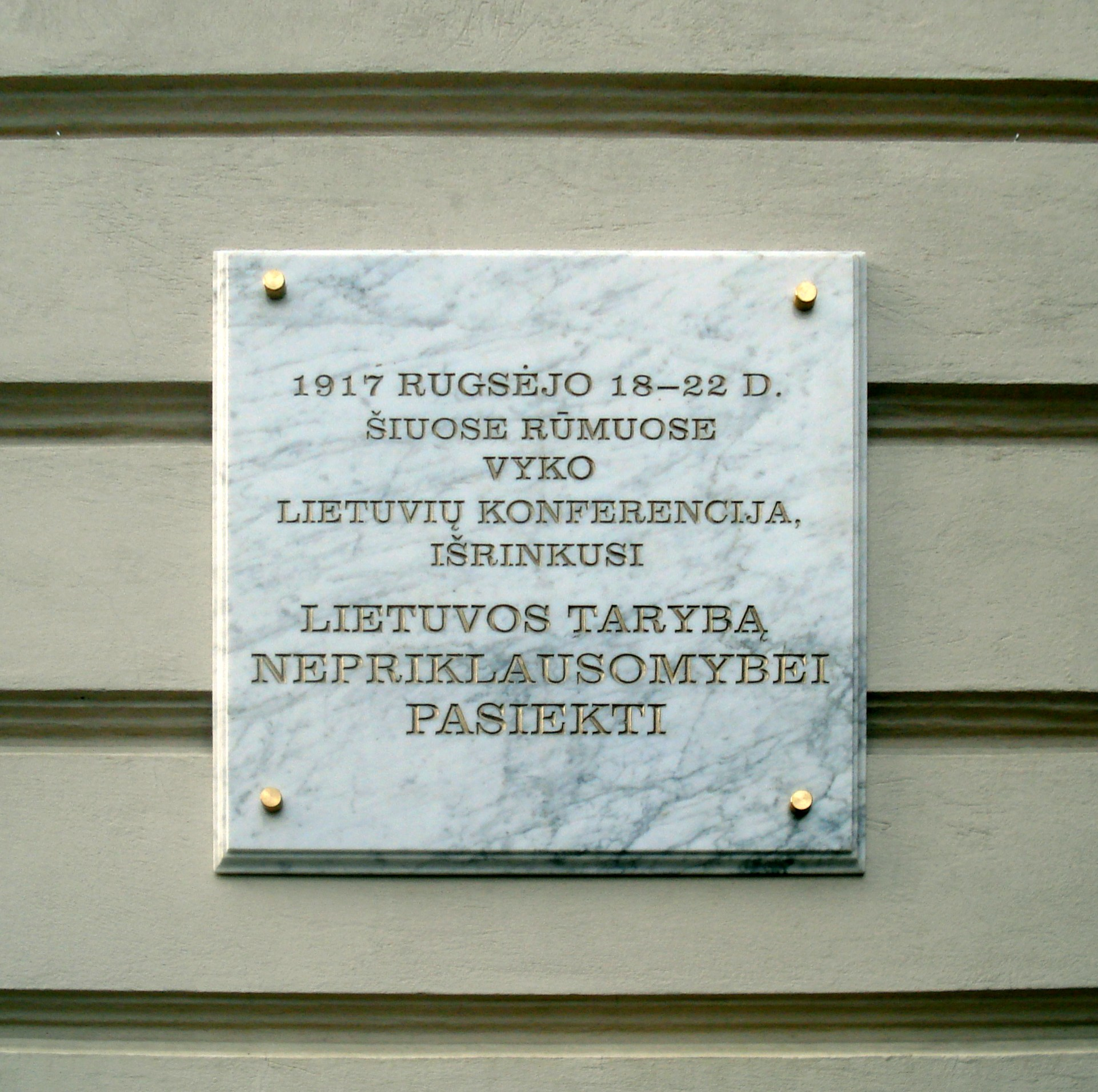 Memorial plaque in honour of Vilnius Conference (18 09 - 22 09 1917). Jono Basanavičiaus g. 13. 2007 sept. 17